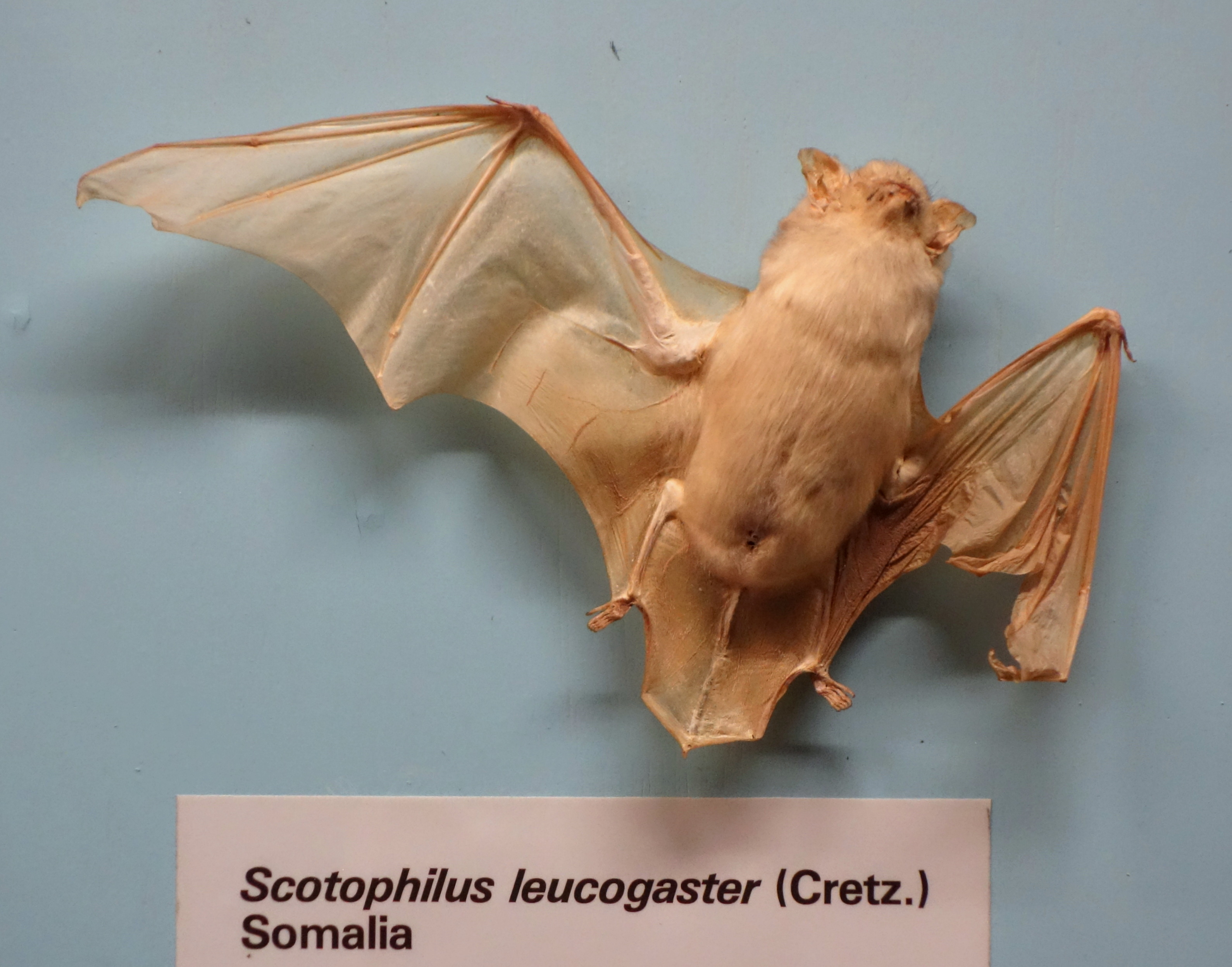 Exhibit in the Museo Civico di Storia Naturale di Genova, Via Brigata Liguria, 9, 16121, Genoa, Italy.